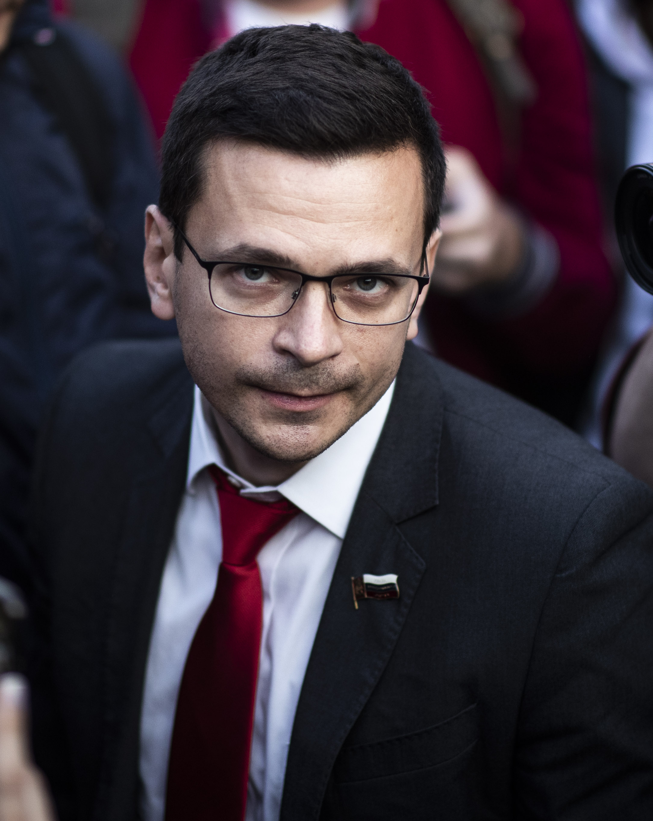 Ilya Yashin